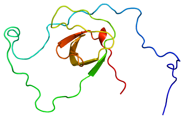 Structure of protein DOCK2.Based on PyMOL rendering of PDB 2RQR.